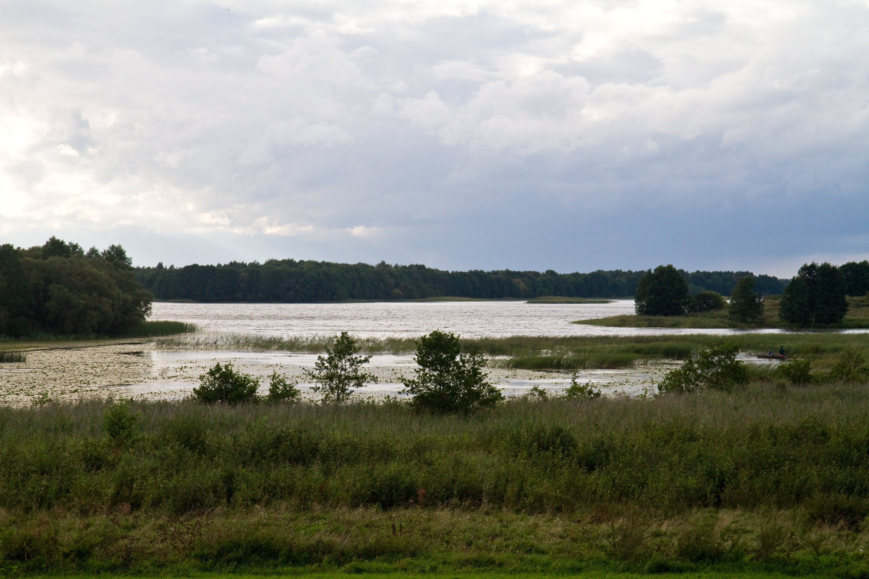 Nieśpiš Lake. Brasłau district, Viciebsk province, Belarus.